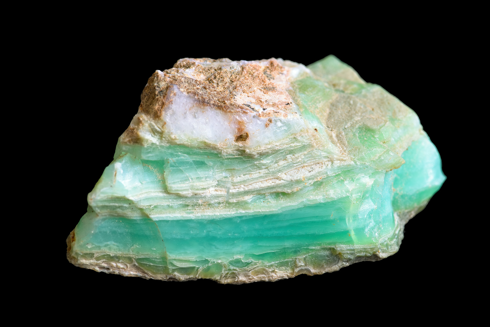 Chrysoprase, Poland, 35×20 mm